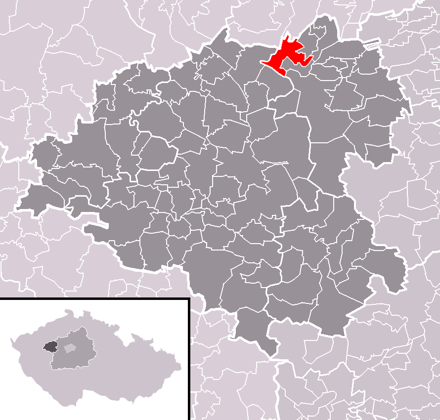 Location of Třeboc municipality within Rakovník District and (identical) administrative area of Rakovník as a Municipality with Extended Competence.